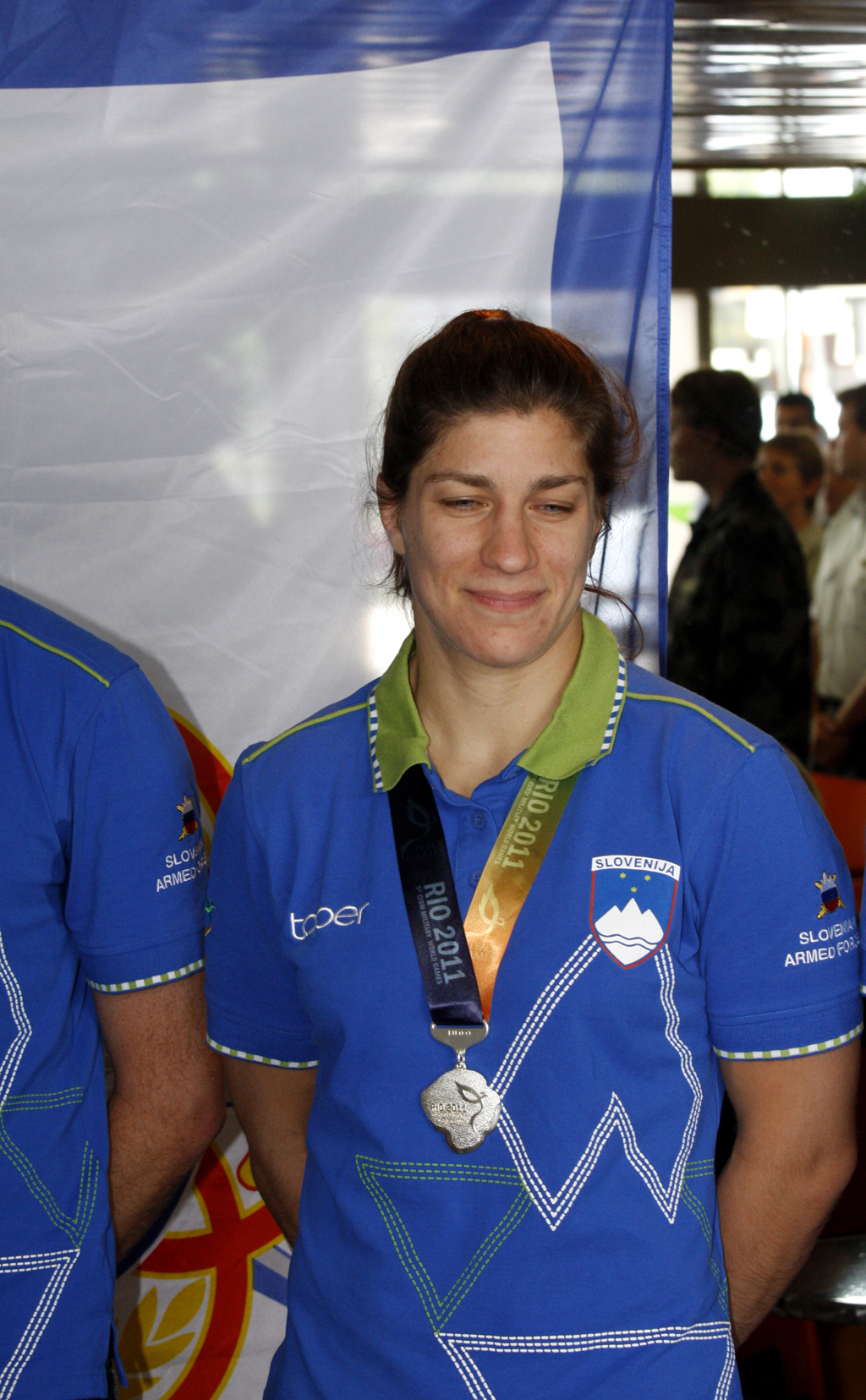 Slovenia team after 2011 Military World Games